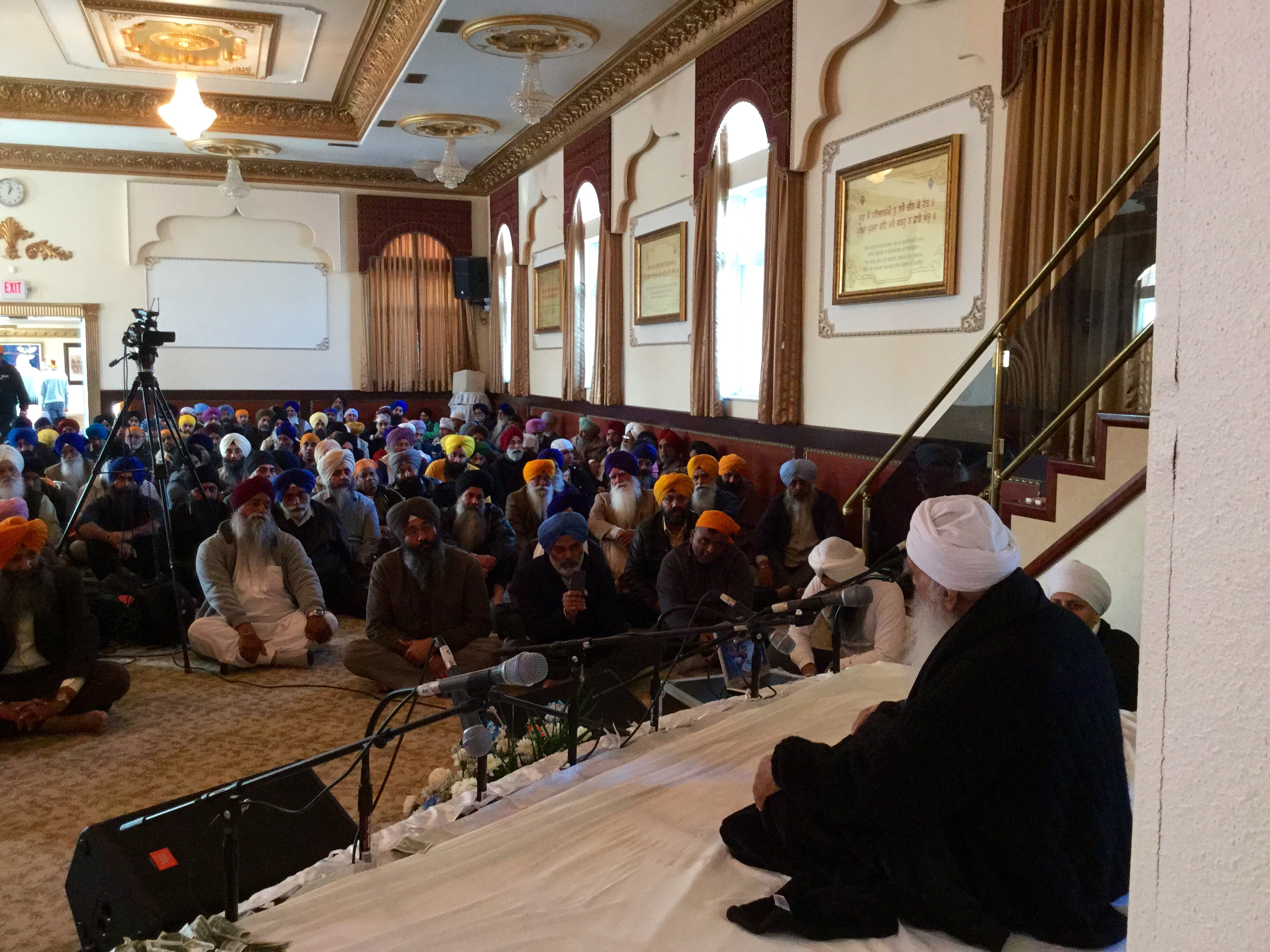 Stockton Gurdwara is the oldest Gurdwara in the United States of America.